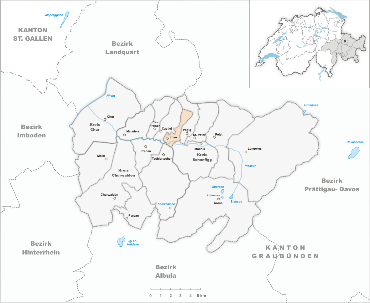 Municipality Lüen